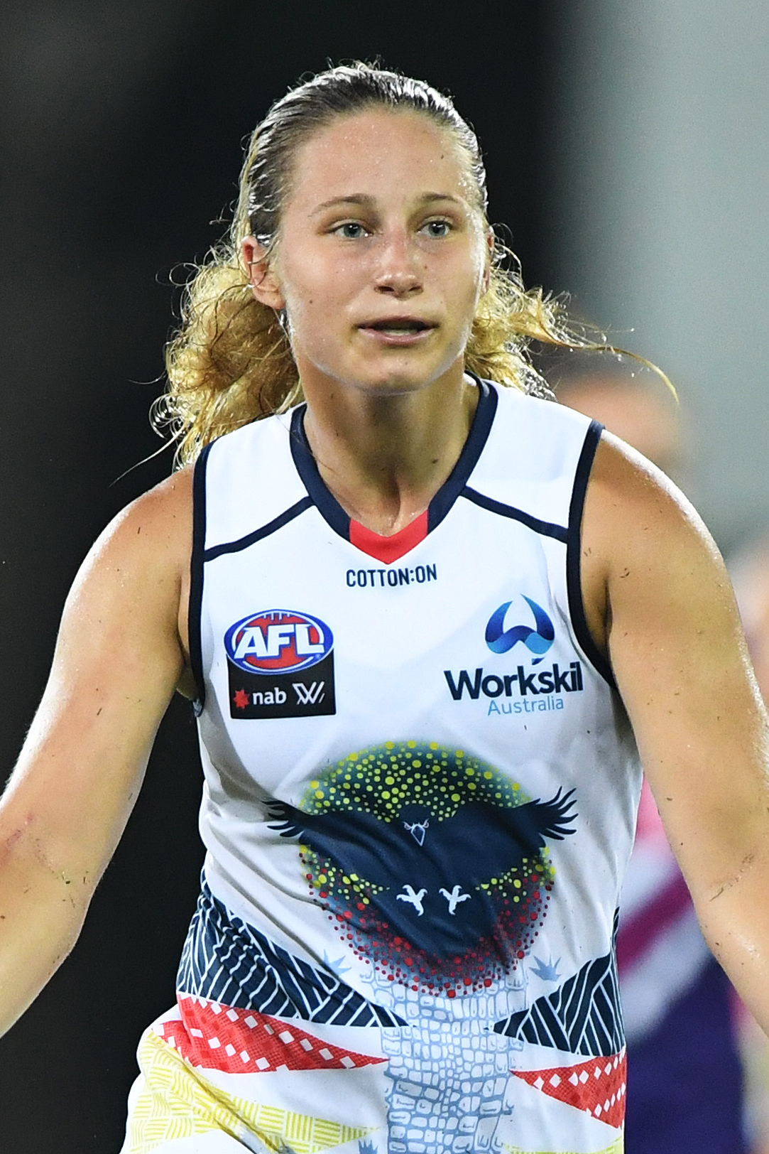 Nikki Gore of Adelaide during the 2019 AFL Women's practice match between the Adelaide Football Club and Fremantle Football Club at TIO Stadium on January 19, 2019 in Darwin Australia.